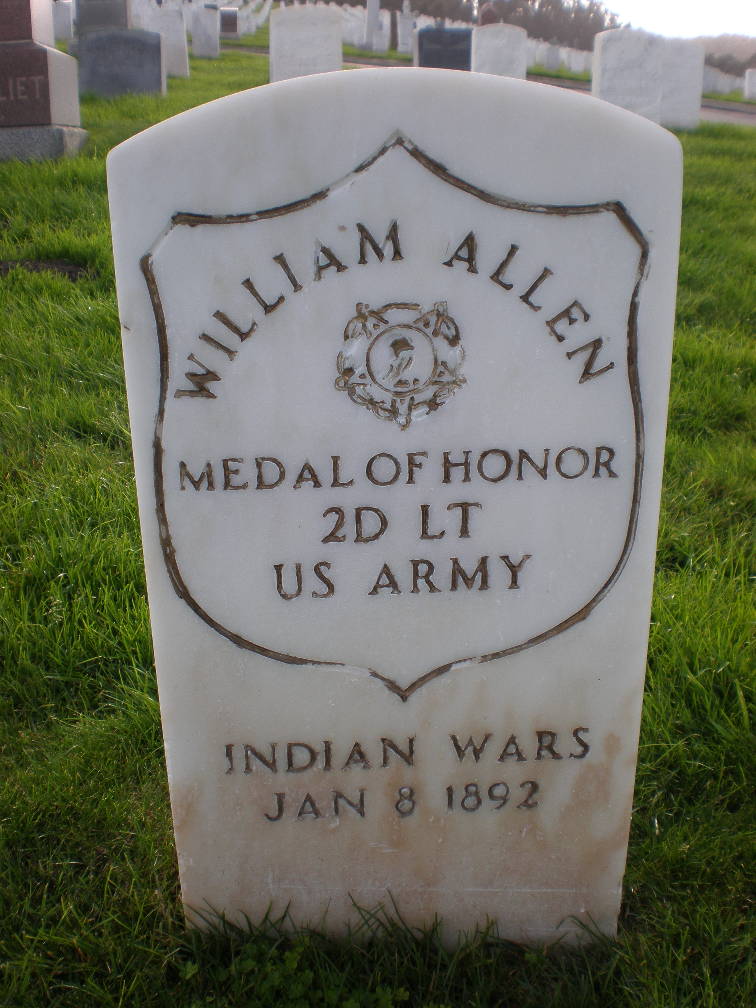 The headstone of 1st. Lt. William Allen, Medal of Honor recipient, at San Francisco National Cemetery in the Presidio of San Francisco.